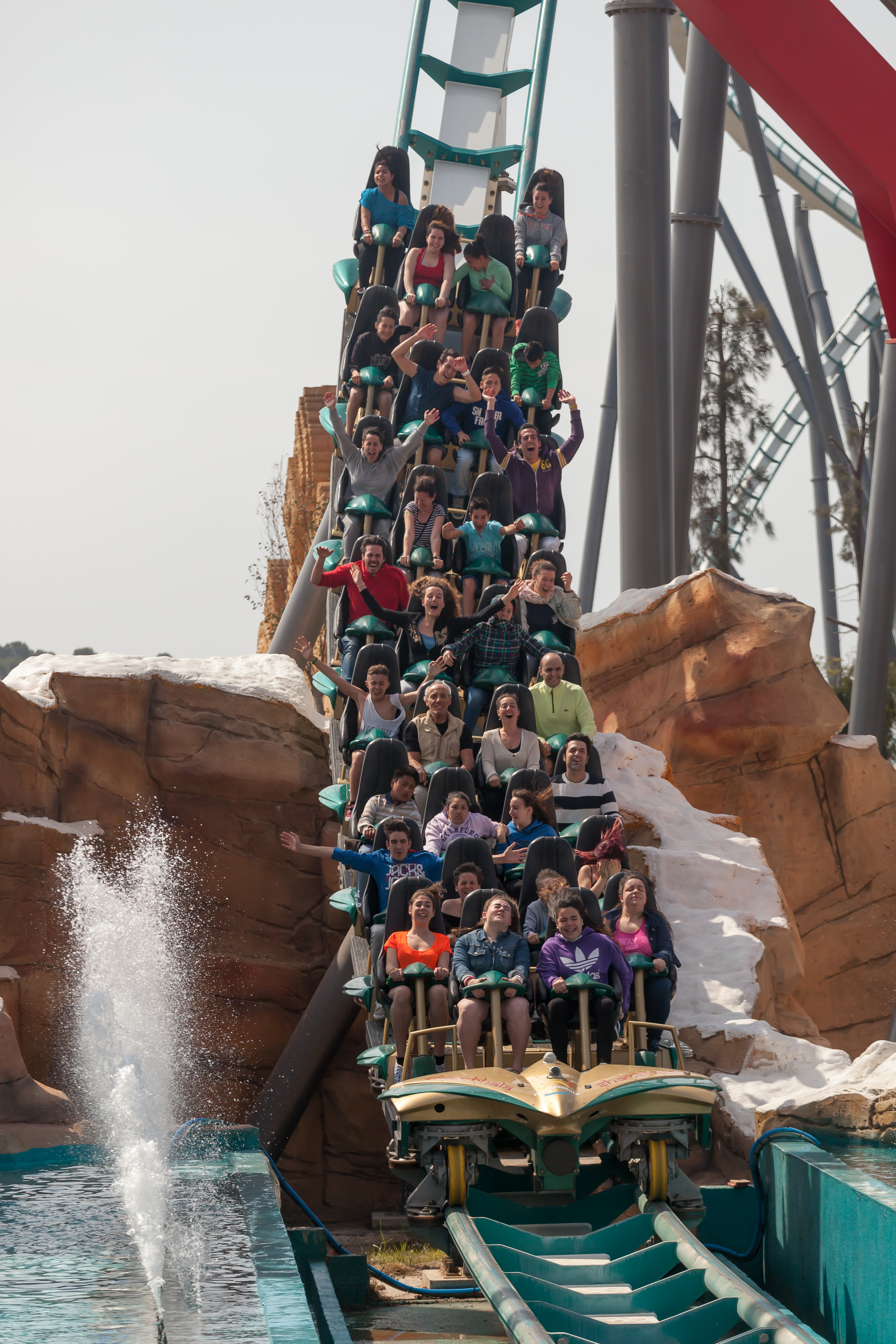 Roller coaster at PortAventura, Salou, Tarragona, Catalonia.